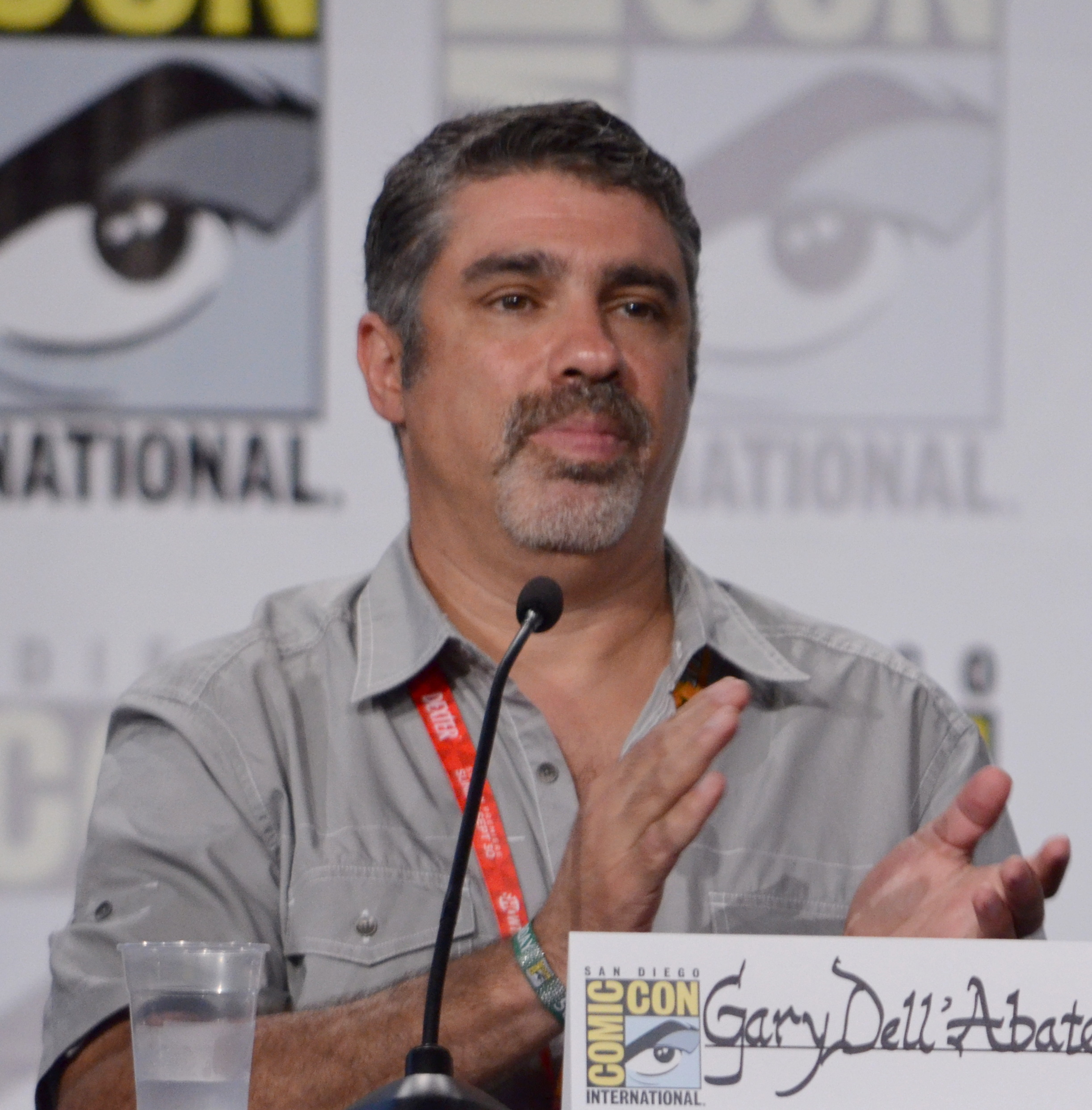 Gary Dell'Abate at 2012 Comic-Con.